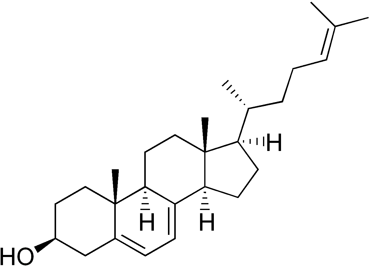 chemical structure of 7-Dehydrodesmosterol